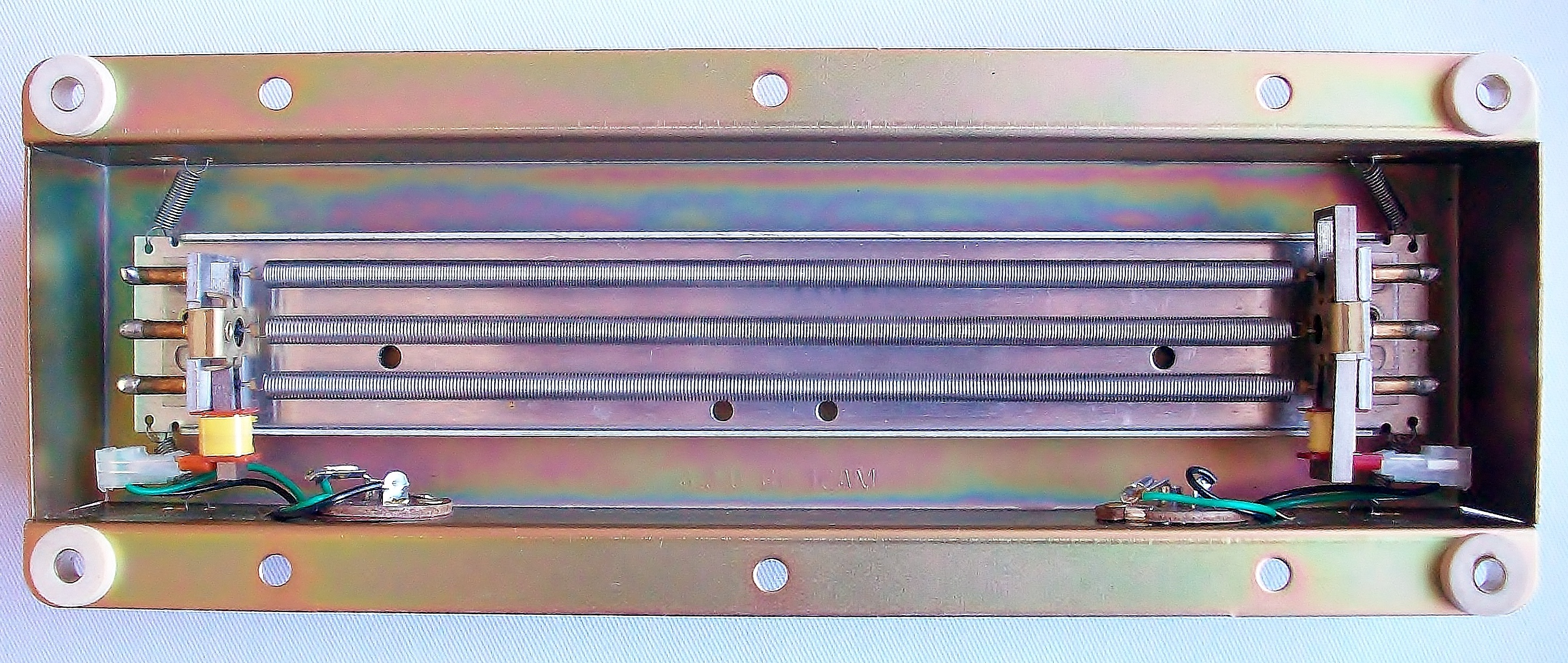 Picture of the interior of a Spring Reverb Tank.